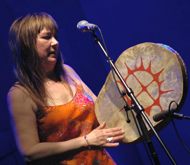 Mari Boine peforming in Warszawa, Poland in September 2007